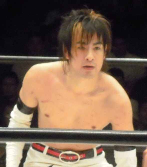 Japanese professional wrestler,Isami Kodaka. May 28 2010 BJW Korakuen Hall.